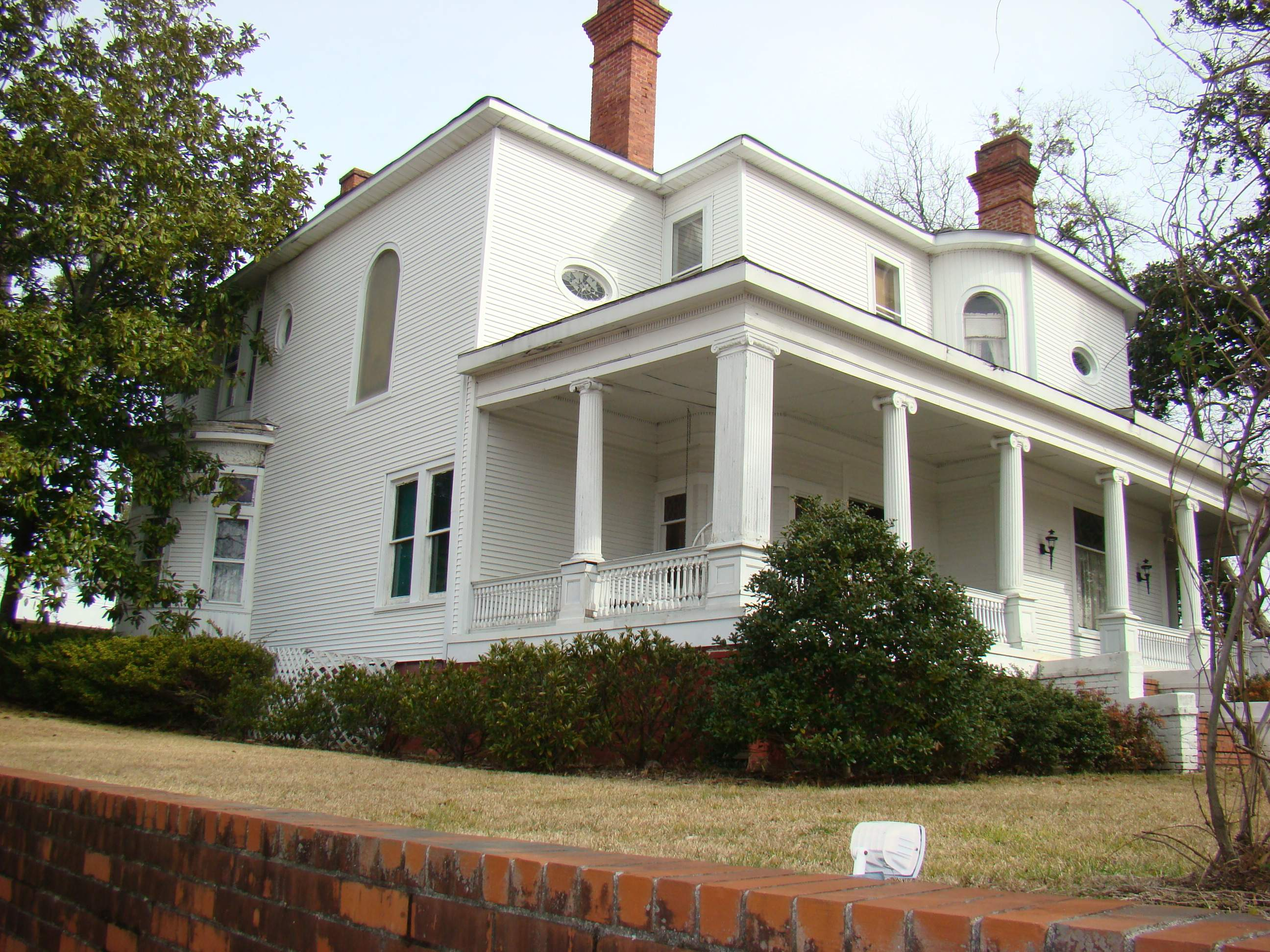 The Simmons-Bond House, located in Toccoa, Georgia, was constructed by architect Levi Prater for lumberman James B. Simmons in 1903. The mansion is now a Victorian inn.